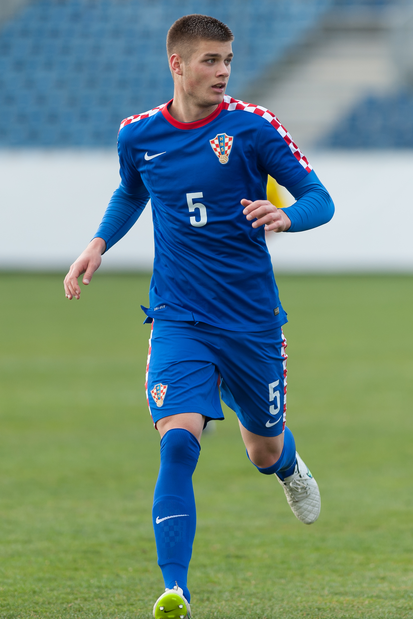 European Under-19 Championships 2015 Elite Round, Austria vs. Croatia, 28/03/2015 Wiener Neustadt, Lower Austria